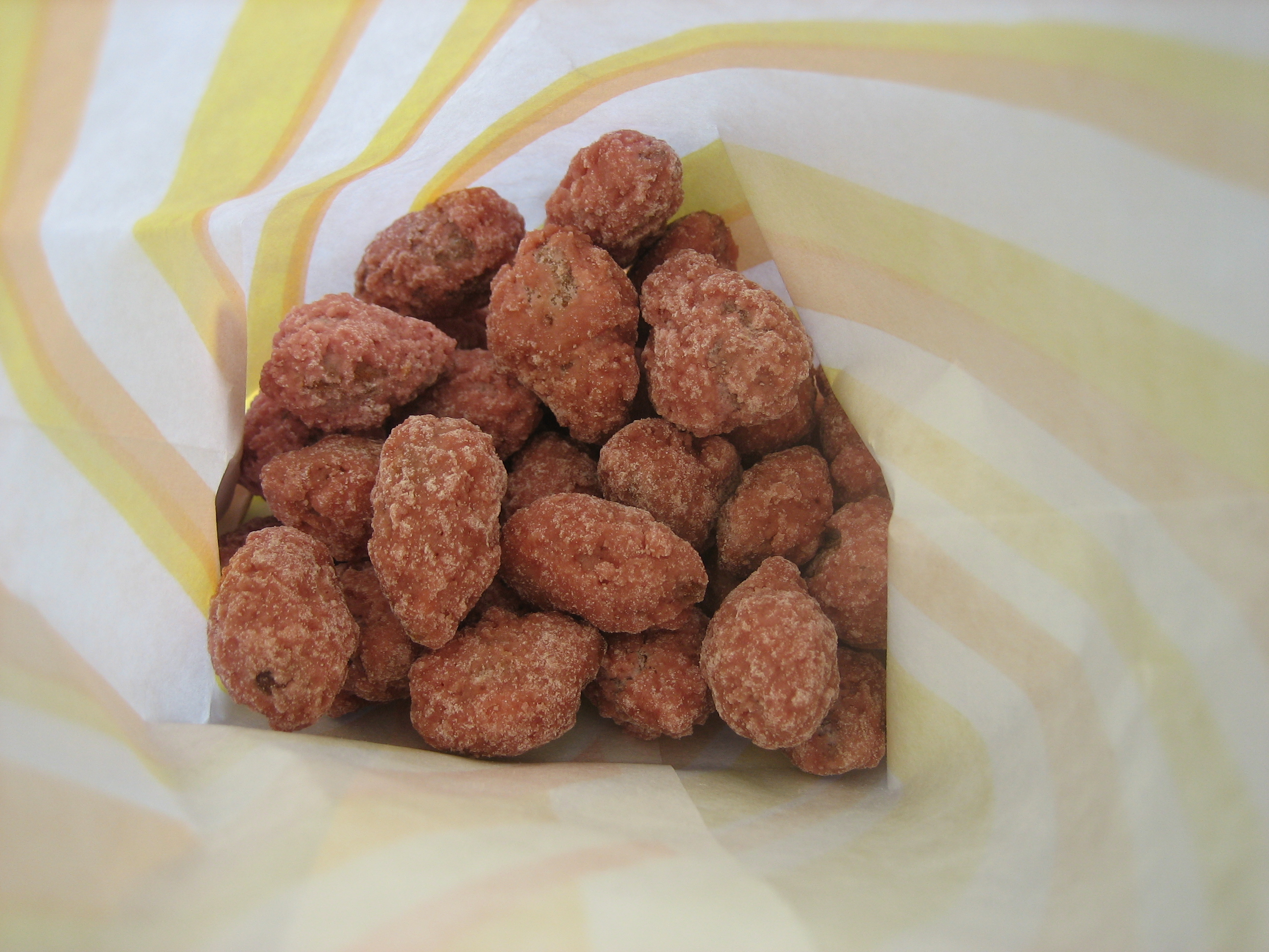 Roasted almonds from Konserthuset